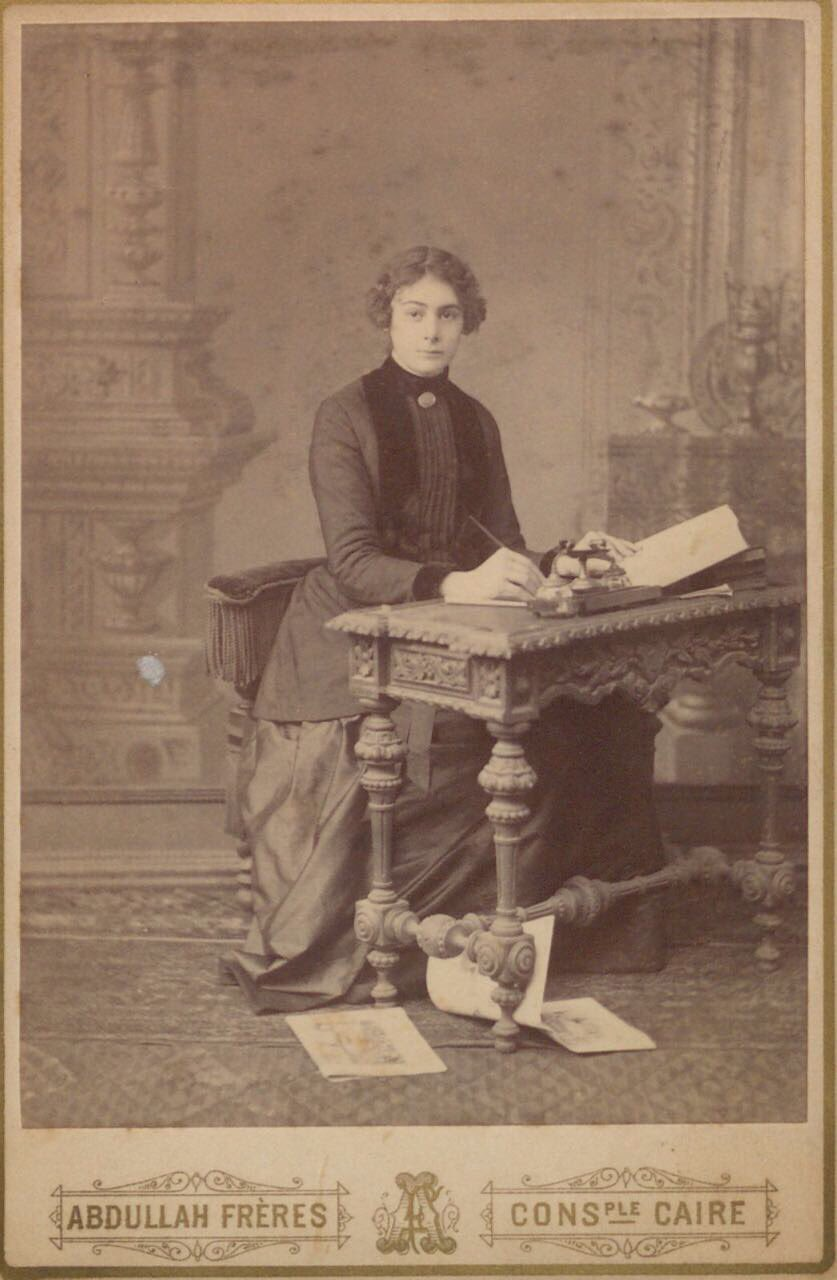 Selma Rıza (5 February 1872 – 5 October 1931) was the first female Turkish journalist. She was also one of the early novelists of Turkey.